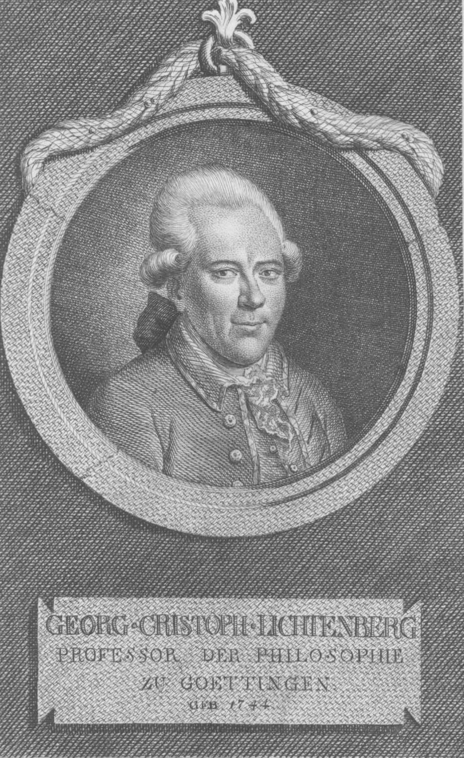 Portrait of Georg Christoph Lichtenberg (1742-1799), German scientist and writer